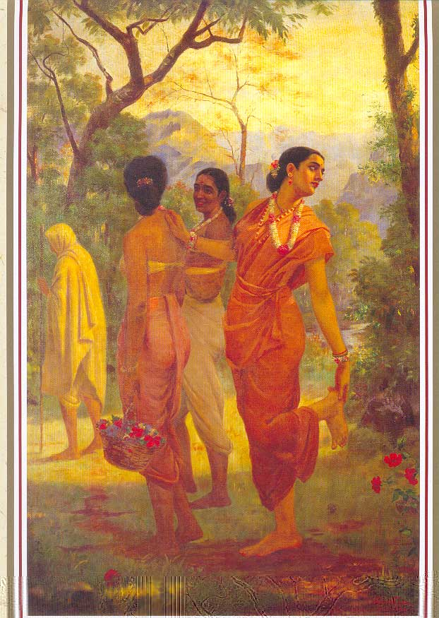 "Shakuntala looking back to glimpse Dushyanta"